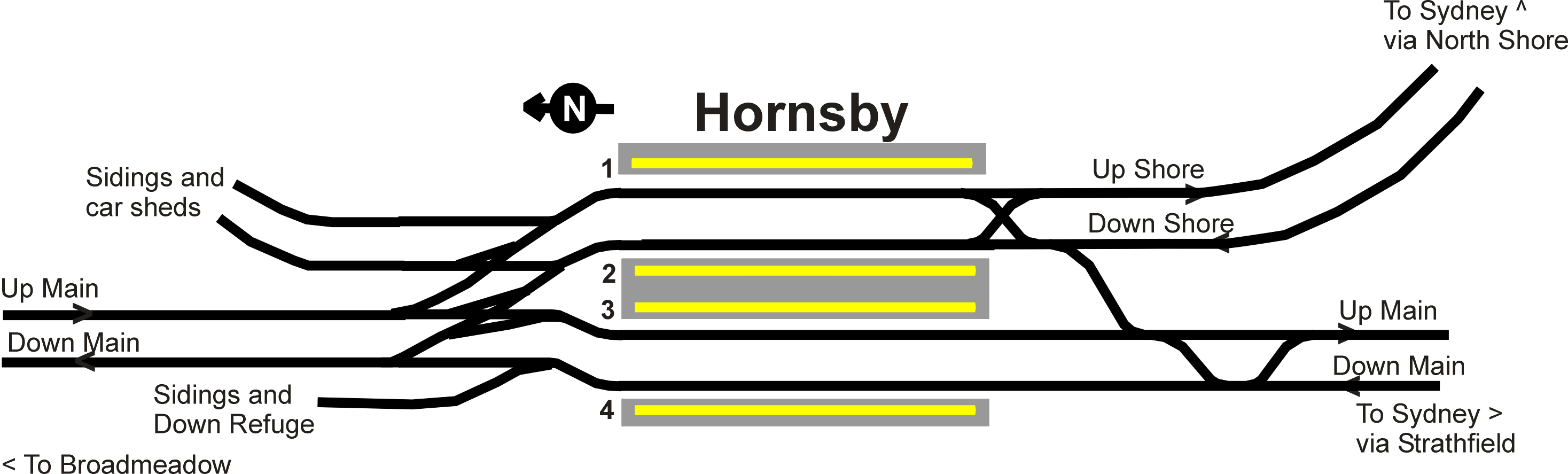 Track layout at Hornsby railway station, Sydney prior to construction of the fifth platform